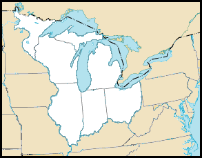 The Northwest Territory of the United States, circa 1787, time of the Northwest Ordinance. Created October 2004 by jengod, modified in July 2006 by Hotstreets. Based on a public domain U.S. government map